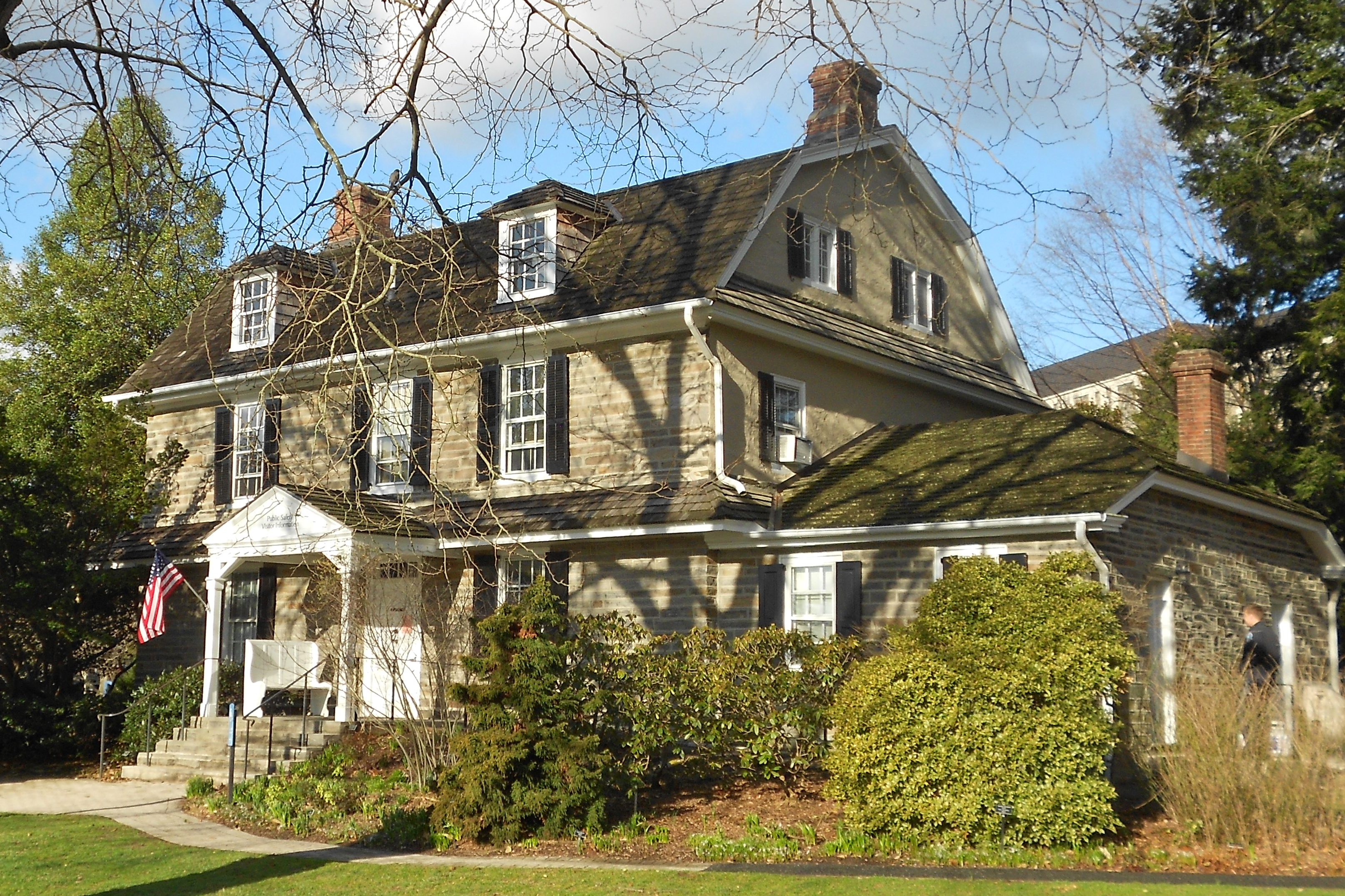 Painter Benjamin West's birthplace in Swarthmore, Pennsylvania (then just Springfield Township)